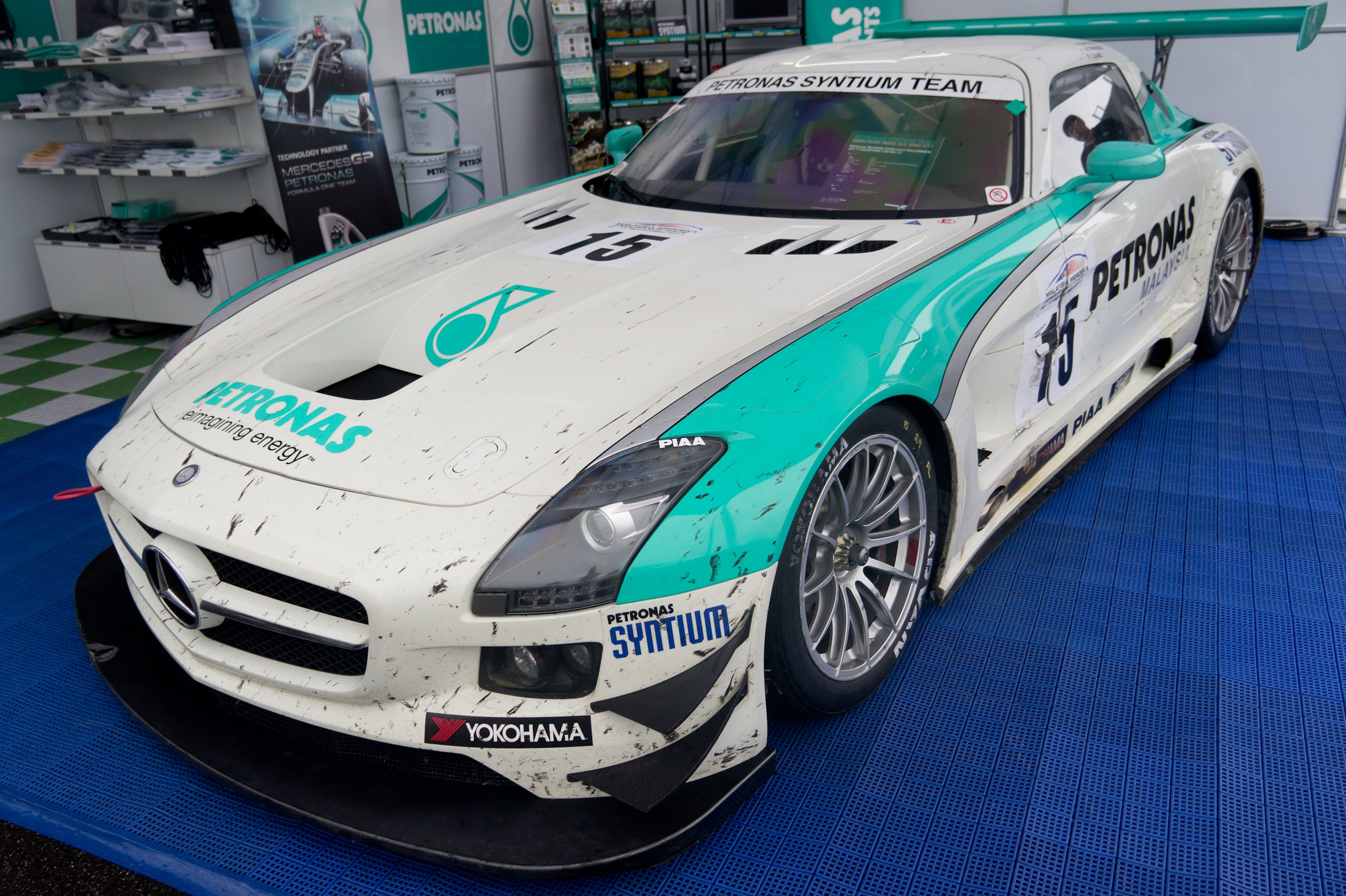 Super Taikyu 2011 Rd.4 Suzuka: Mercedes-Benz SLS AMG GT3 (for Super Taikyu ST-X class in the 2012 season)